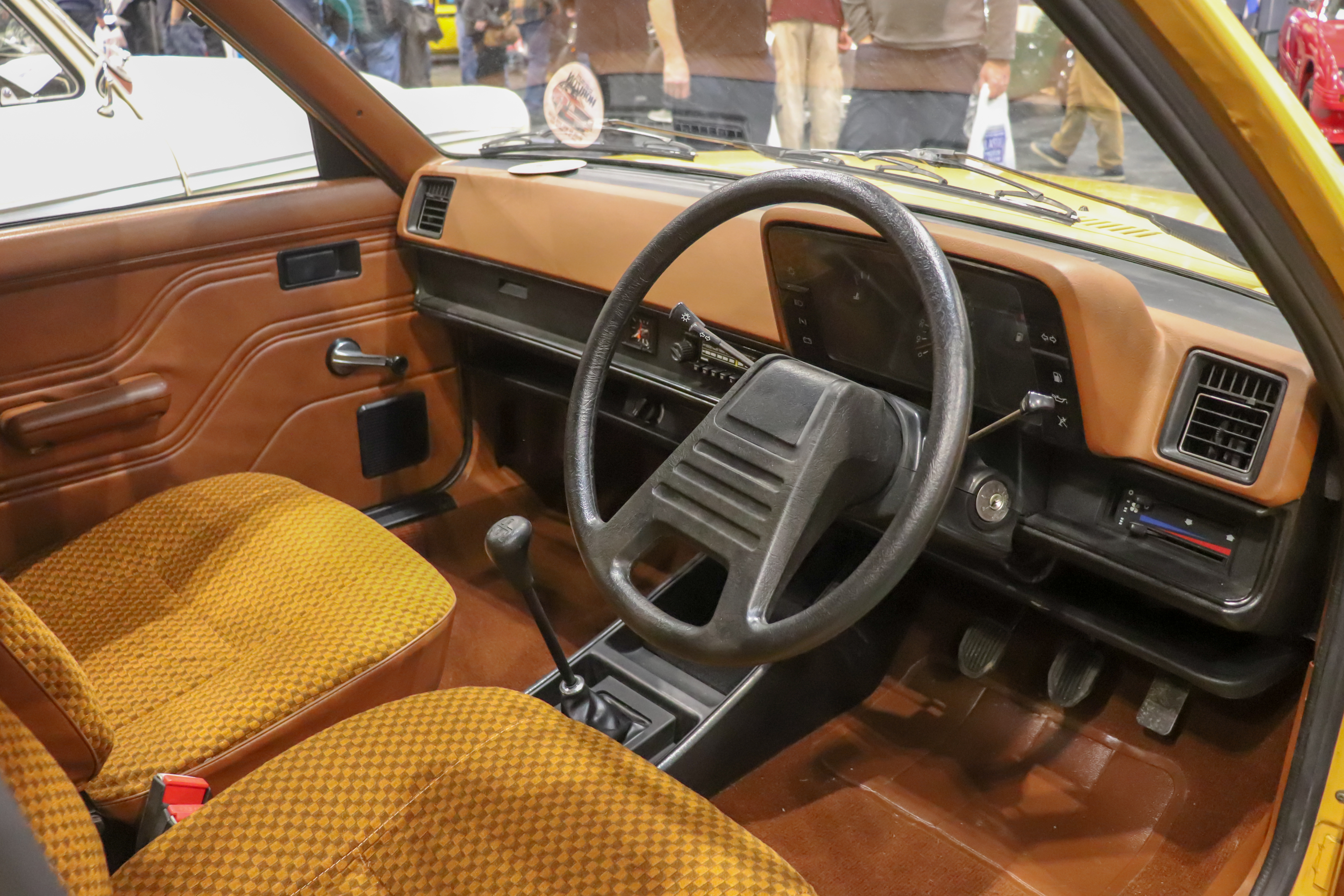 1978 Chrysler Horizon GL Interior Taken at the NEC Classic Motor Show 2018